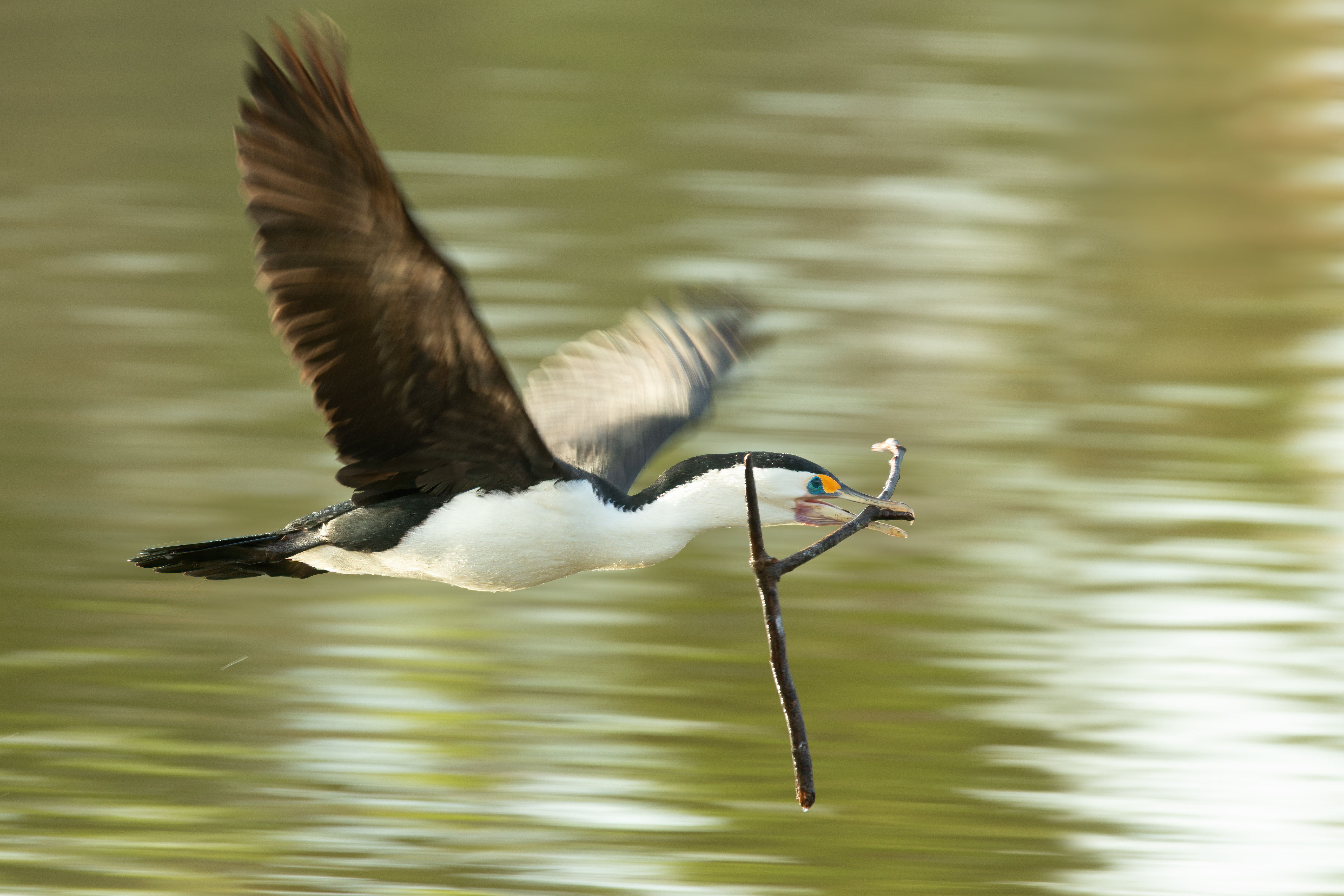 Australian Pied Cormorant (Phalacrocorax varius), Centennial Park., Sydney, New South Wales, Australia